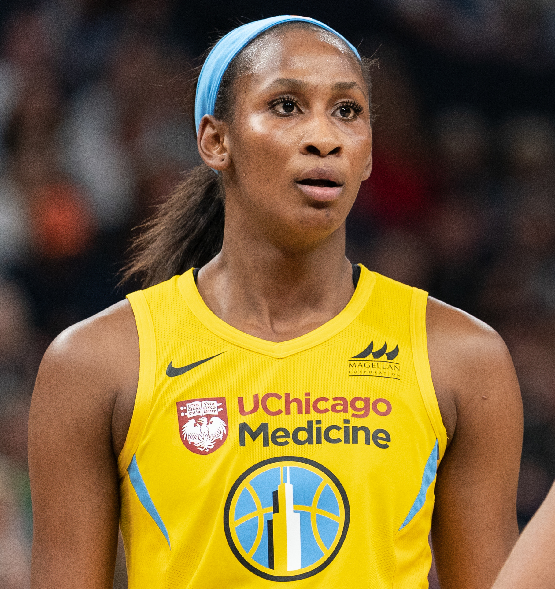 Chicago Sky player Astou Ndour in a game against the Minnesota Lynx